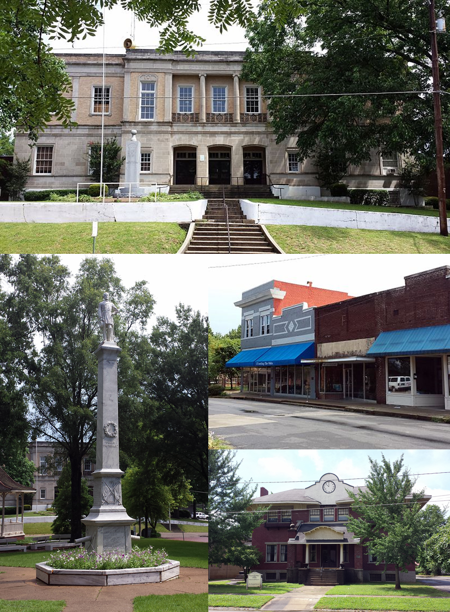 Source: File:Marianna, AR 010.jpg (User: Brandonrush) File:Marianna Confederate Monument 002.jpg (User: Brandonrush) File:Lee County Courthouse 001.jpg (User: Brandonrush) File:Elks Club 002.jpg (User: Brandonrush)